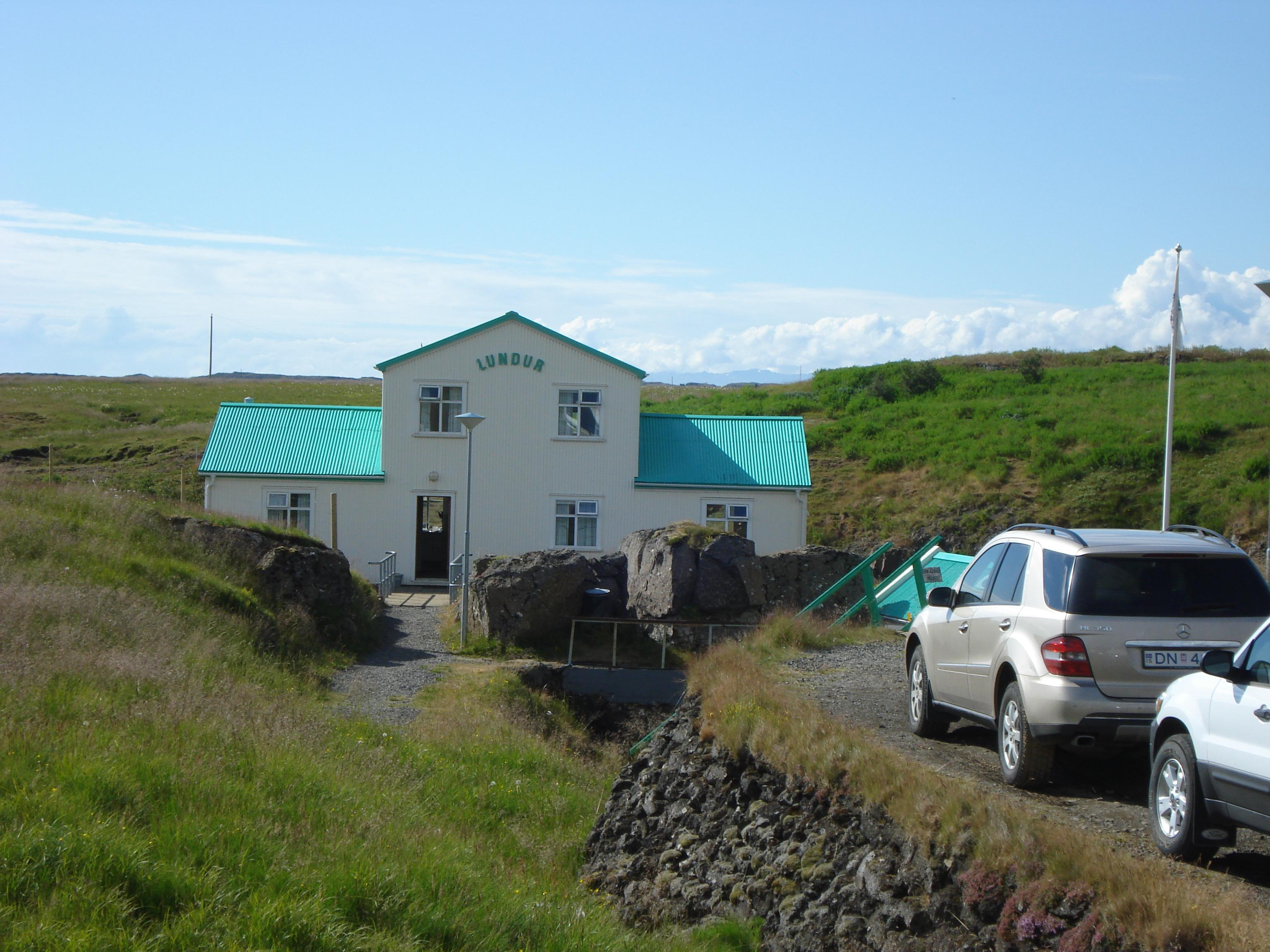 Lundur, near this house you can watch the salmon swimming in the river - nice to watch